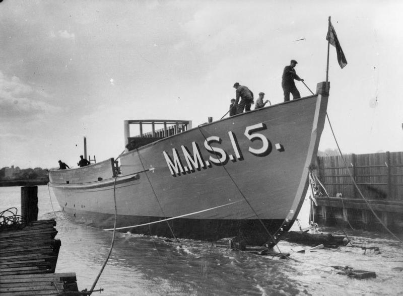 The Royal Navy during the Second World War Shipbuilding: The construction of a wooden minesweeping trawler in an east coast shipyard. Picture shows a motor minesweeper (MMS 15) entering the water from the shipyard.